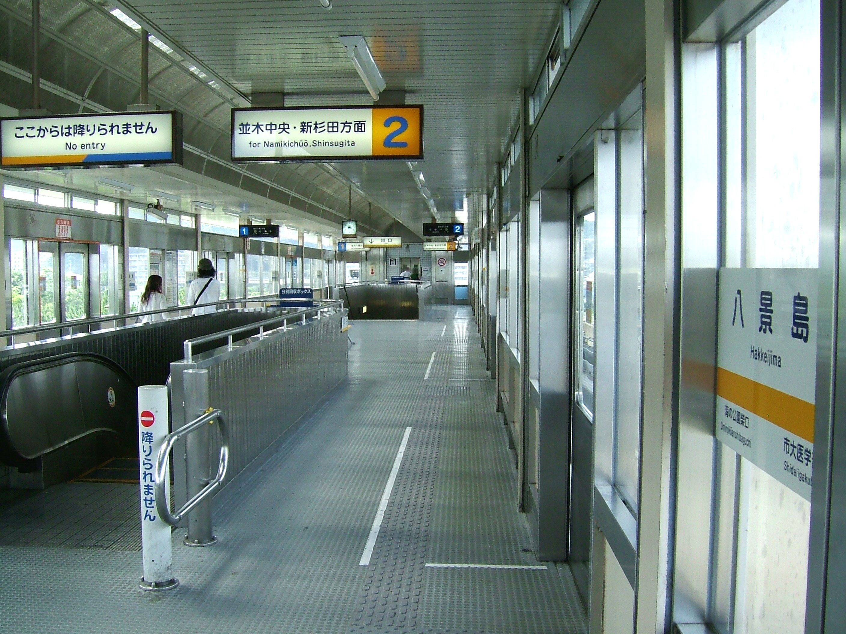 Hakkeijima Station platform (Kanazawa Seaside Line)